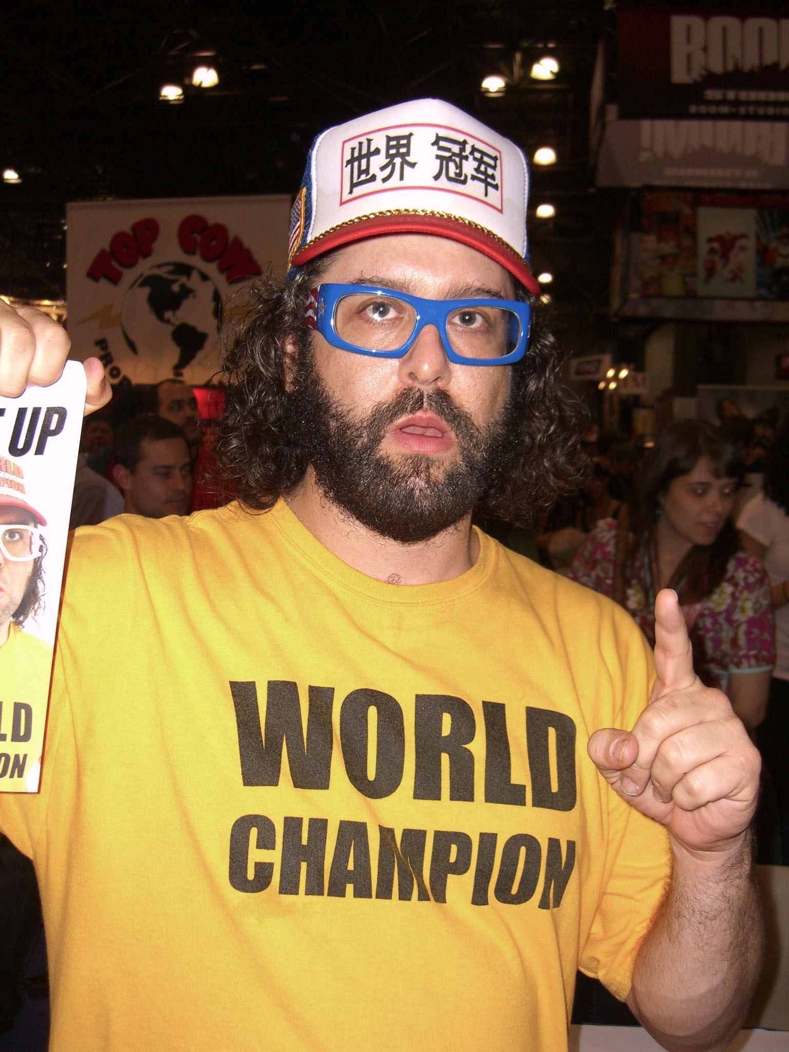 Actor/comedian Judah Friedlander at the New York Comic Convention in Manhattan, October 9, 2010. Photo by Luigi Novi. This photo may be used, modified and published for any purpose, only if a easily visible credit to the photographer is placed near the photo in each instance in which it is used. (See licensing information below.) Publication of this photo without this proper attribution constitute copyright infringement. For more information on my photos, you can contact me here.